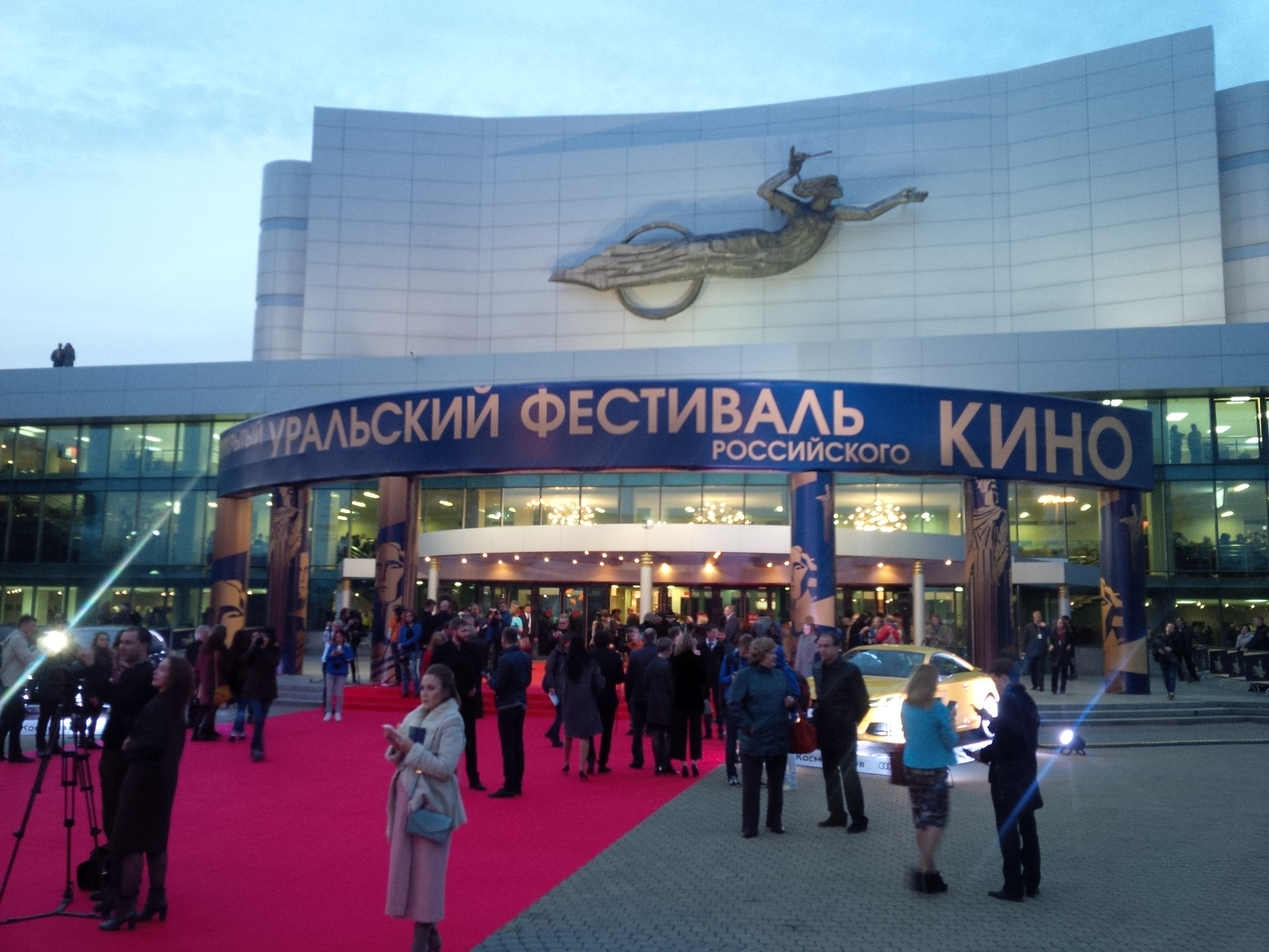 Ural Film Festival 2016 in Yekaterinburg